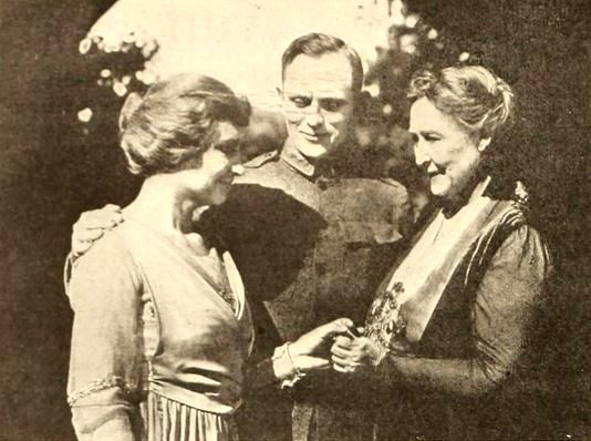 Still for the American film Deliverance (1919) with Helen Keller and her brother and mother, on page 1442 of the August 16, 1919 Motion Picture News.